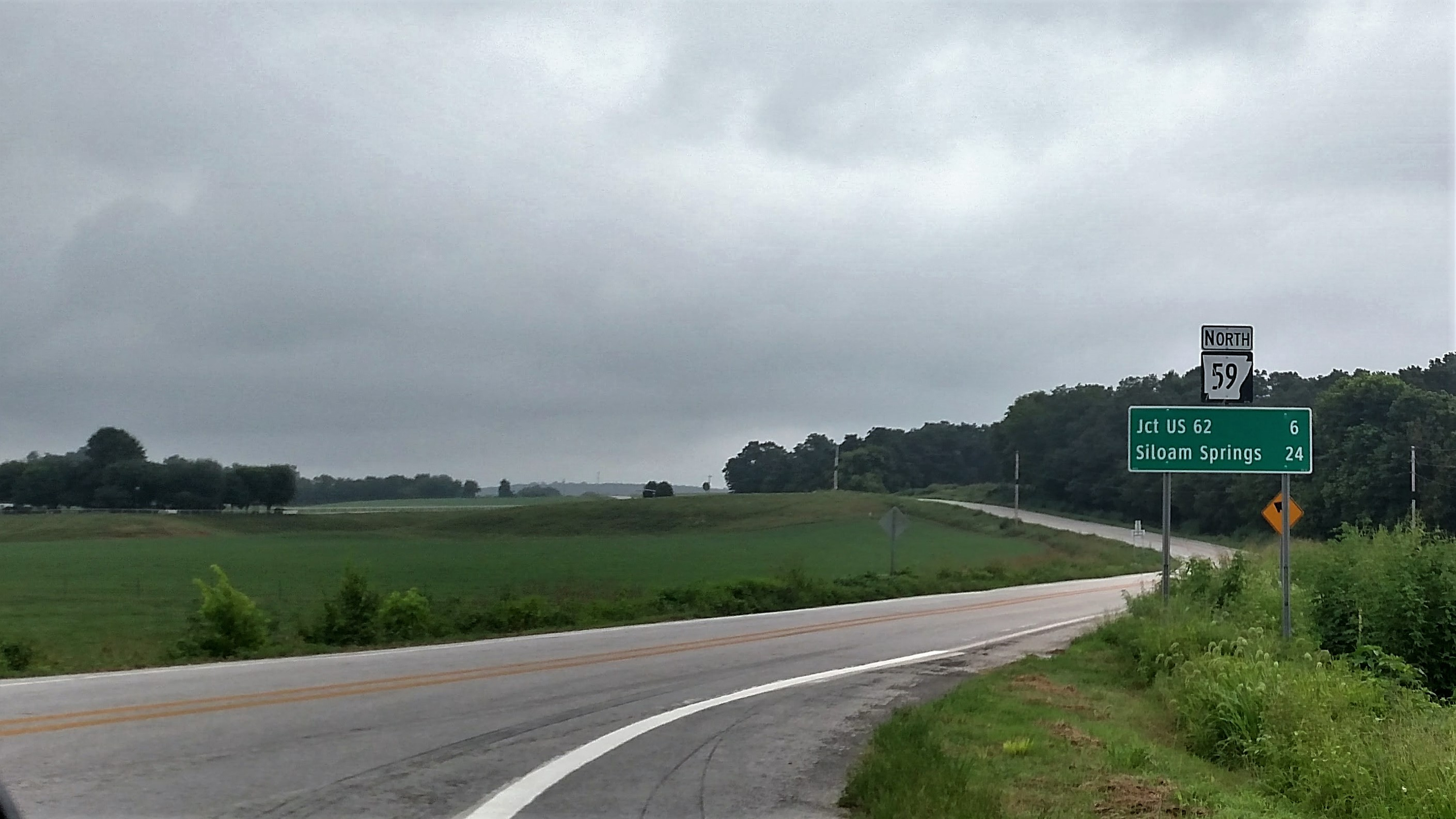 Highway 59 north of Highway 45 junction, Washington County, AR. Facing north